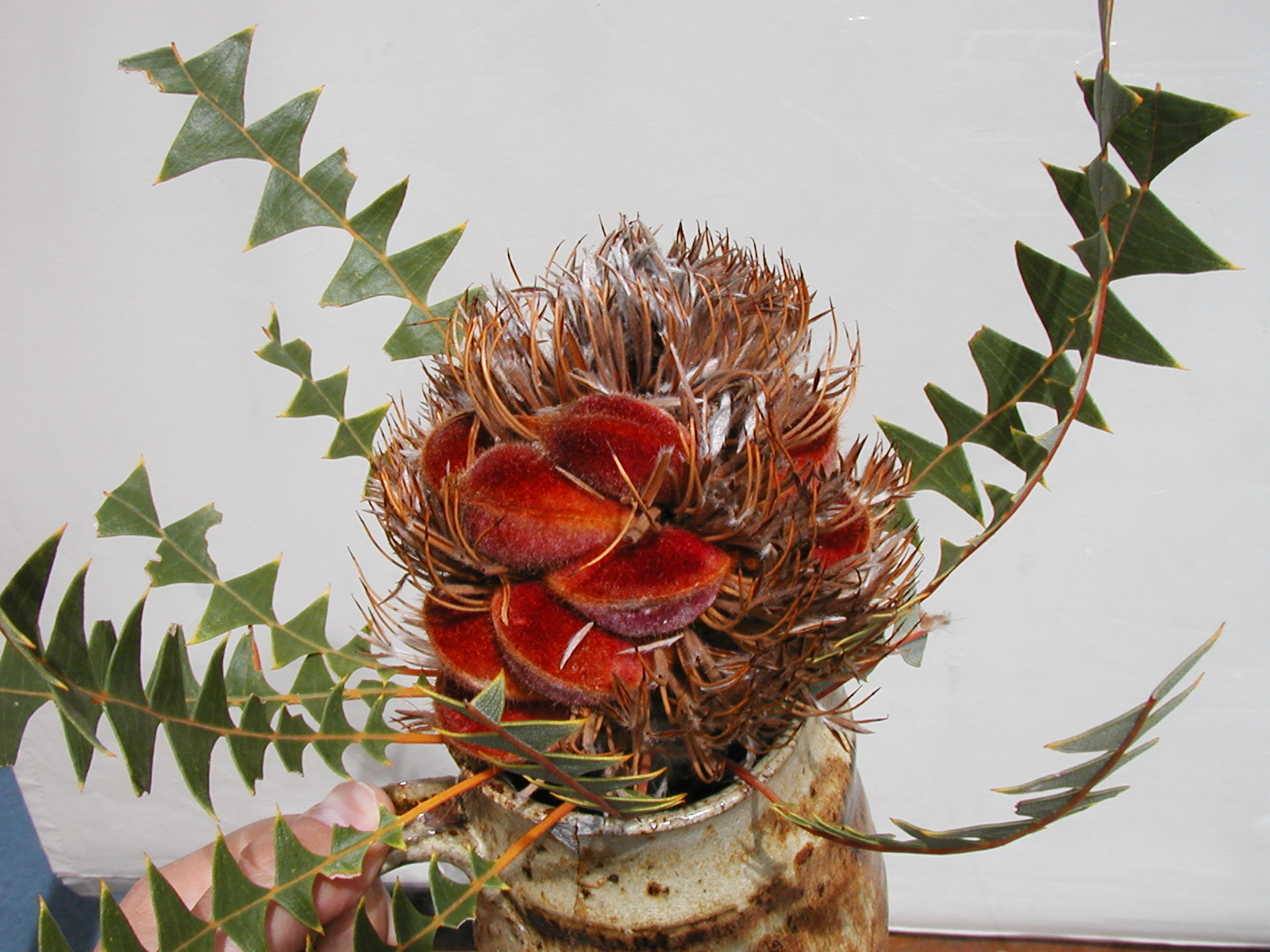 Banksia baxteri - old spike showing large follicles